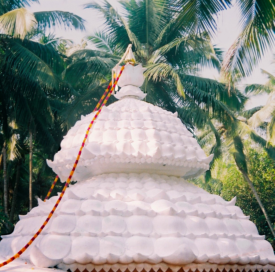 This Photograph is a Nizhal Thangal near Thiruvattar, Tamil Nadu. This Thangal was constructed with an unique architecture with 1008 inverted lotus petals as roof.